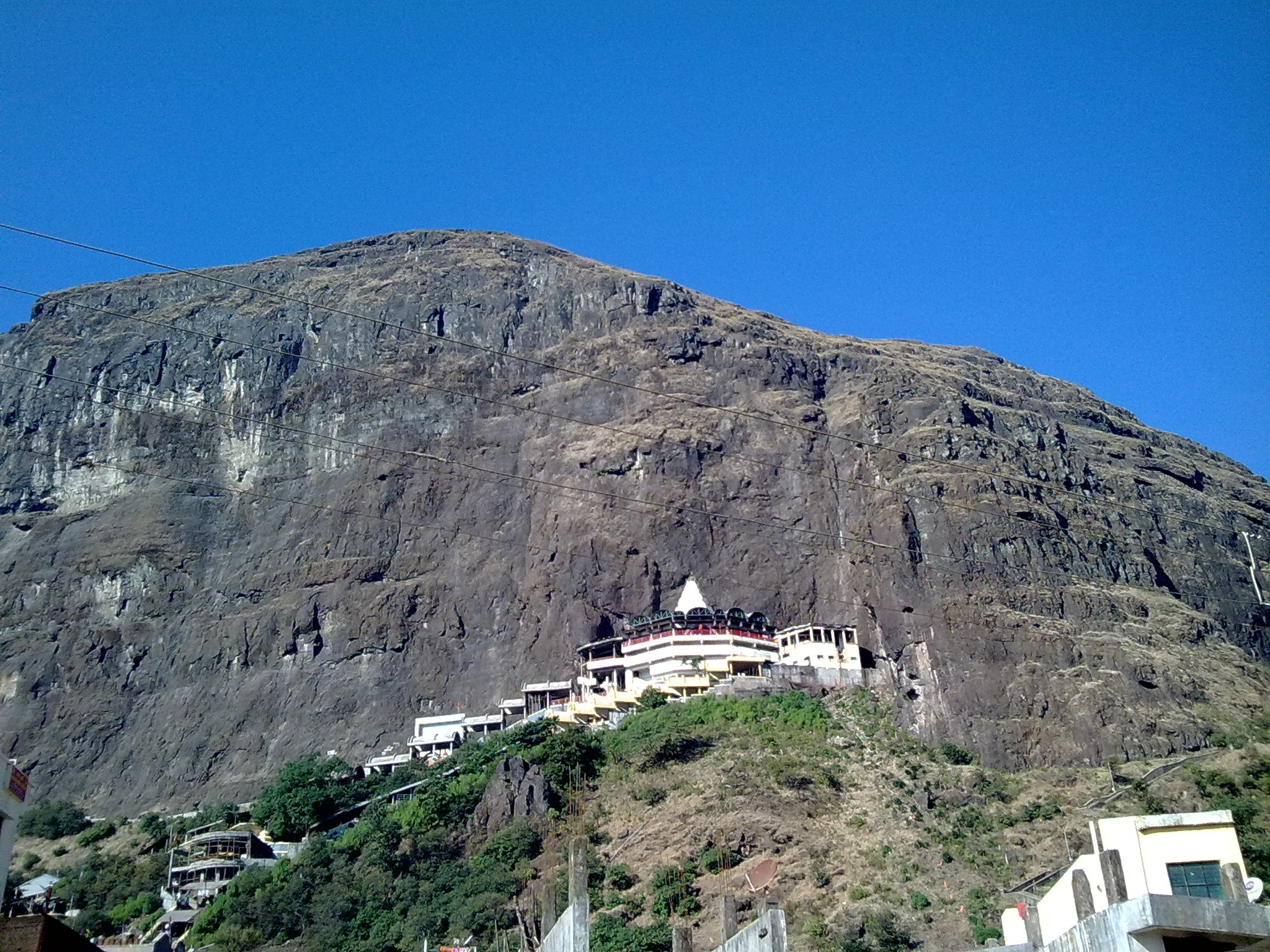 Goddess Saptashrungi Devi Temple (Swyambhu) at Vani near Nasik.